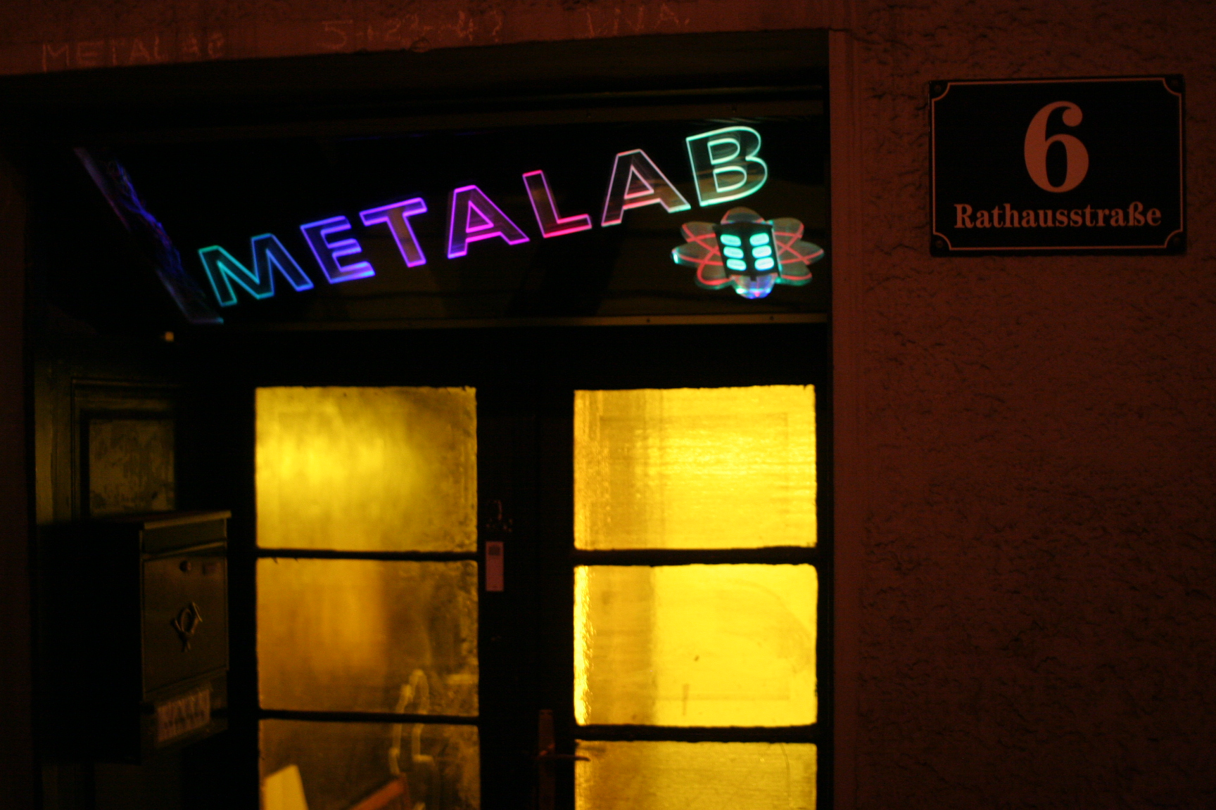 Entrace of Metalab hackerspace at Rathausstrasse 6 in Vienna, Austria.